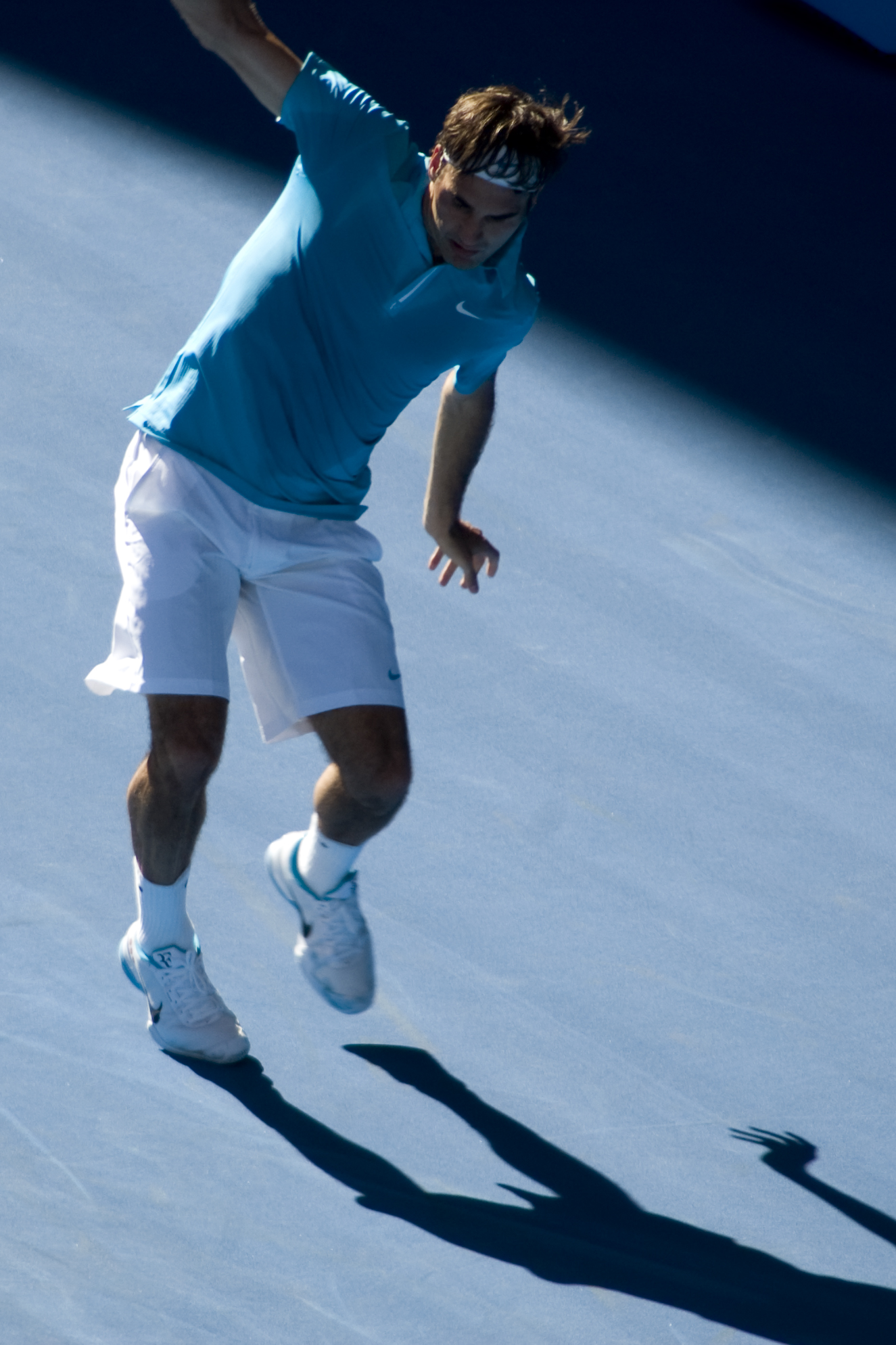 Taken at the Australian Open 2010